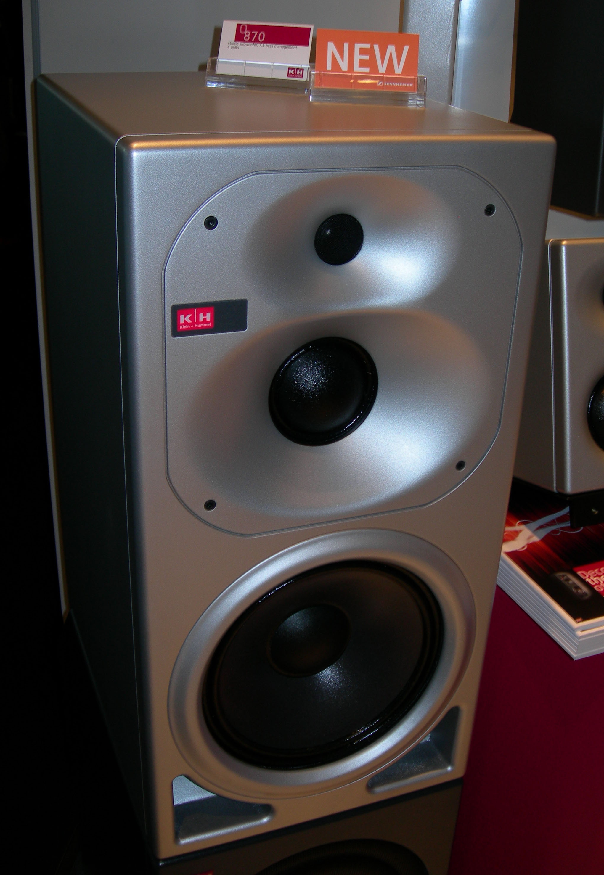 Klein + Hummel O 410 Active Studio Monitor, IBC 2008, Amsterdam